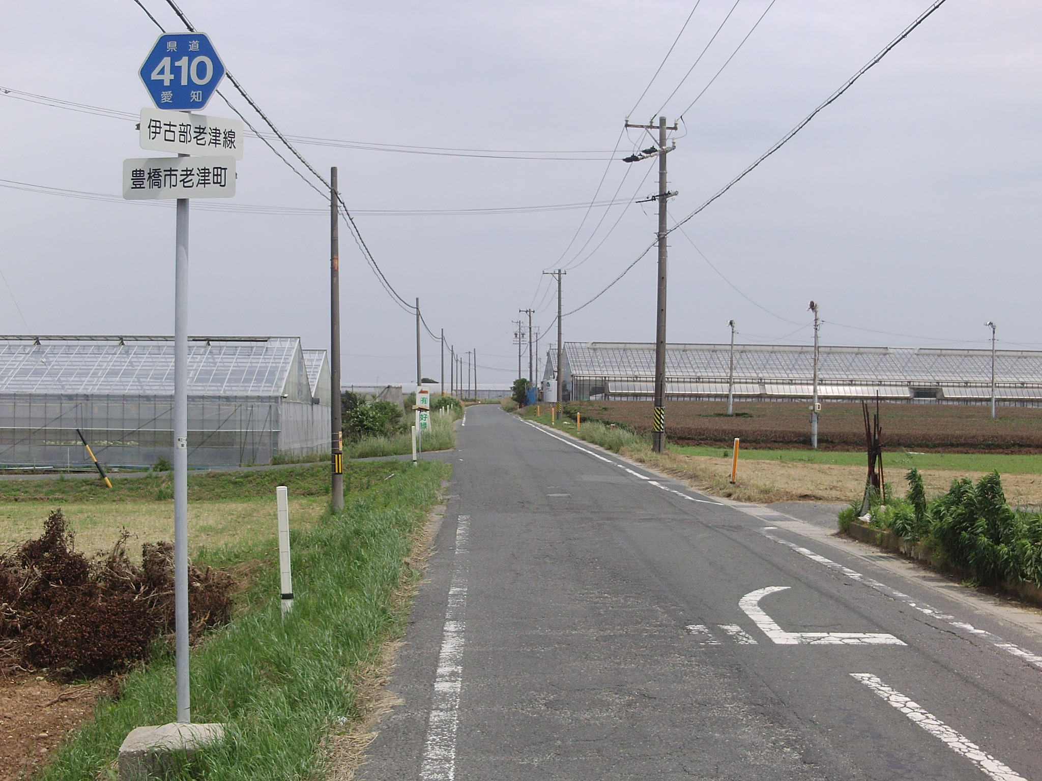 Aichi prefectural road No.410 in Oitsucho, Toyohashi, Aichi.